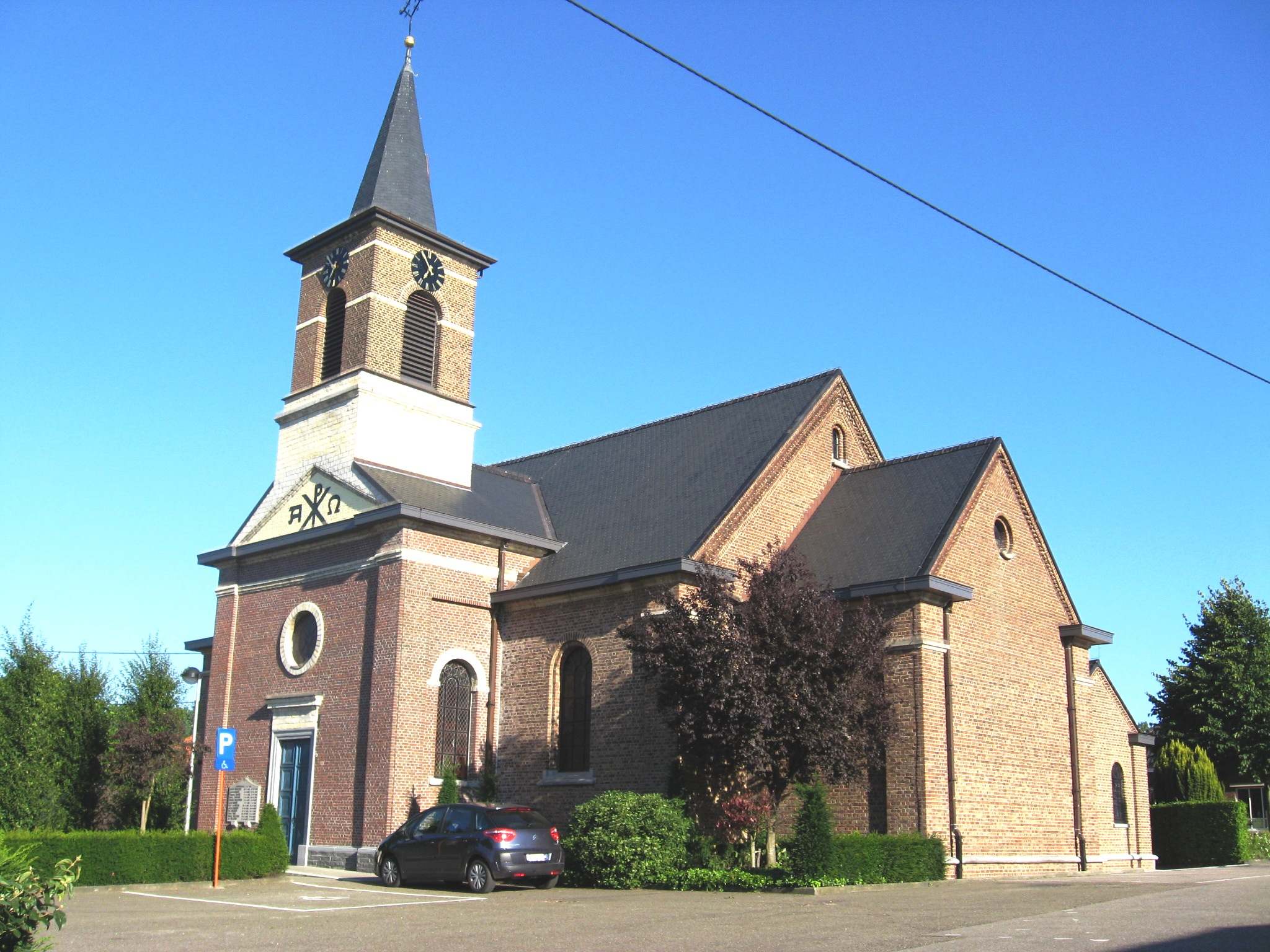 Church of Saint John the Baptiser in Romershoven, Hoeselt, Limburg, Belgium